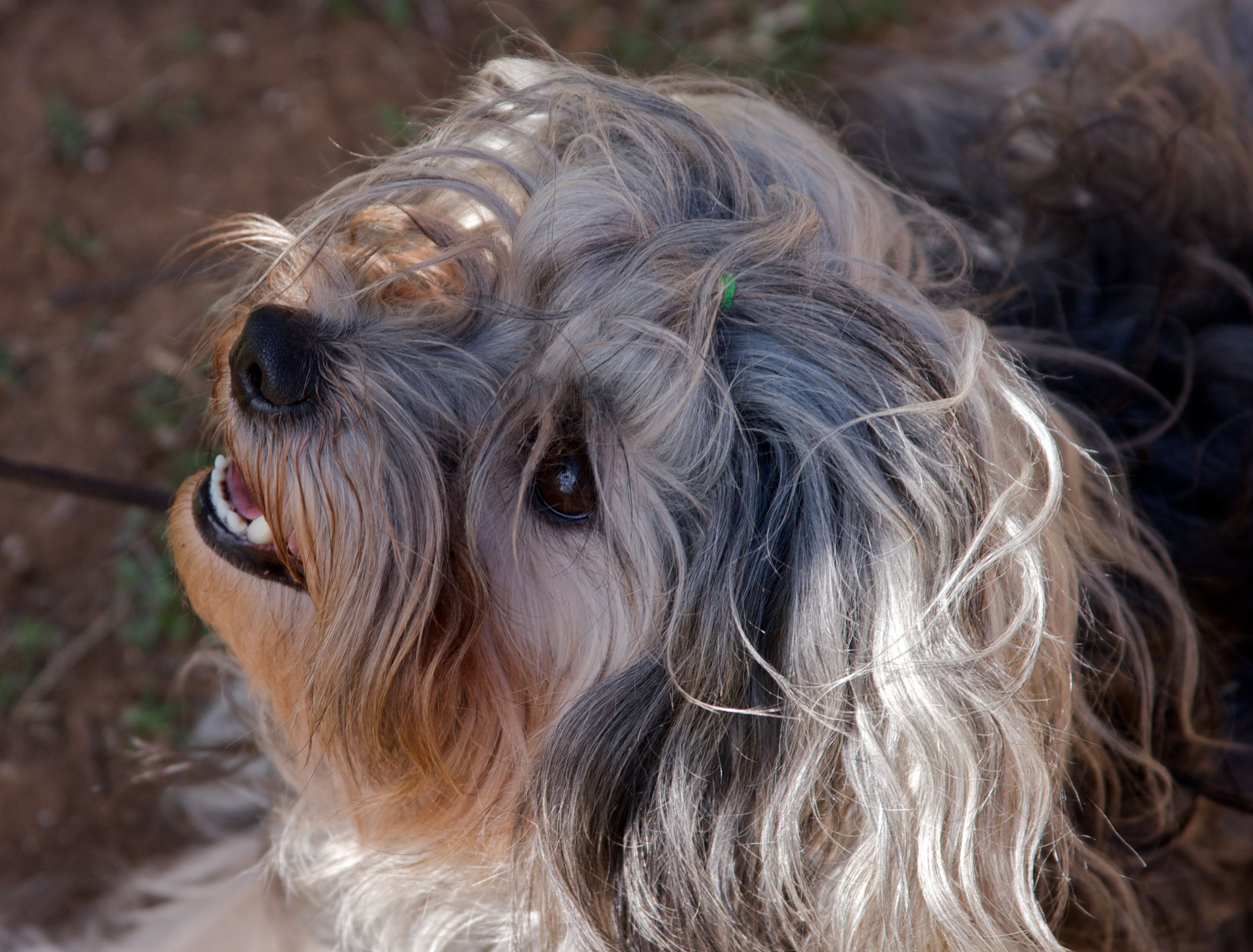 Basil Smile (a Löwchen dog, Ch Taywill Brillant Roman Basilia) showing its face.